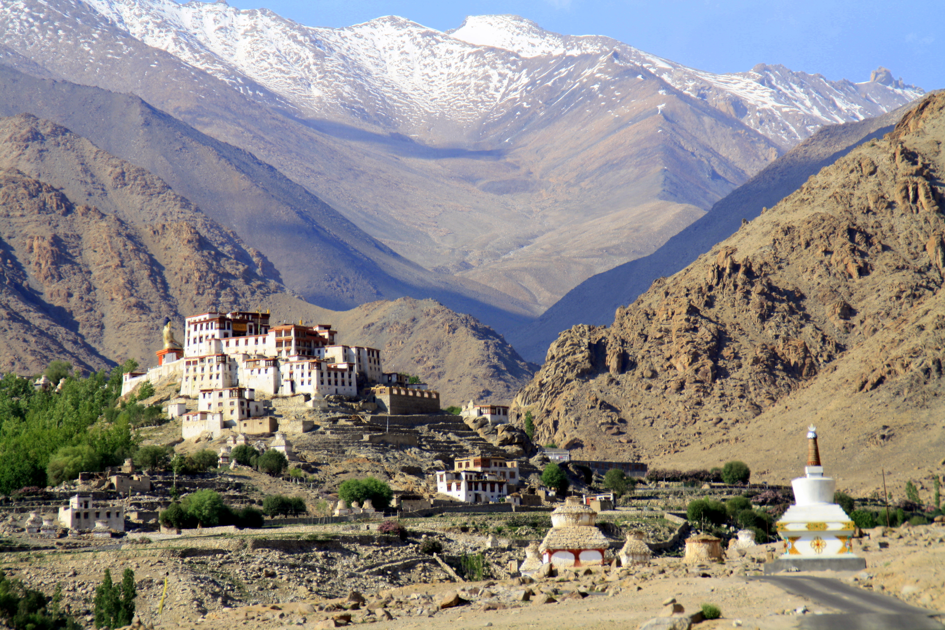 View of the Lakir Monastery